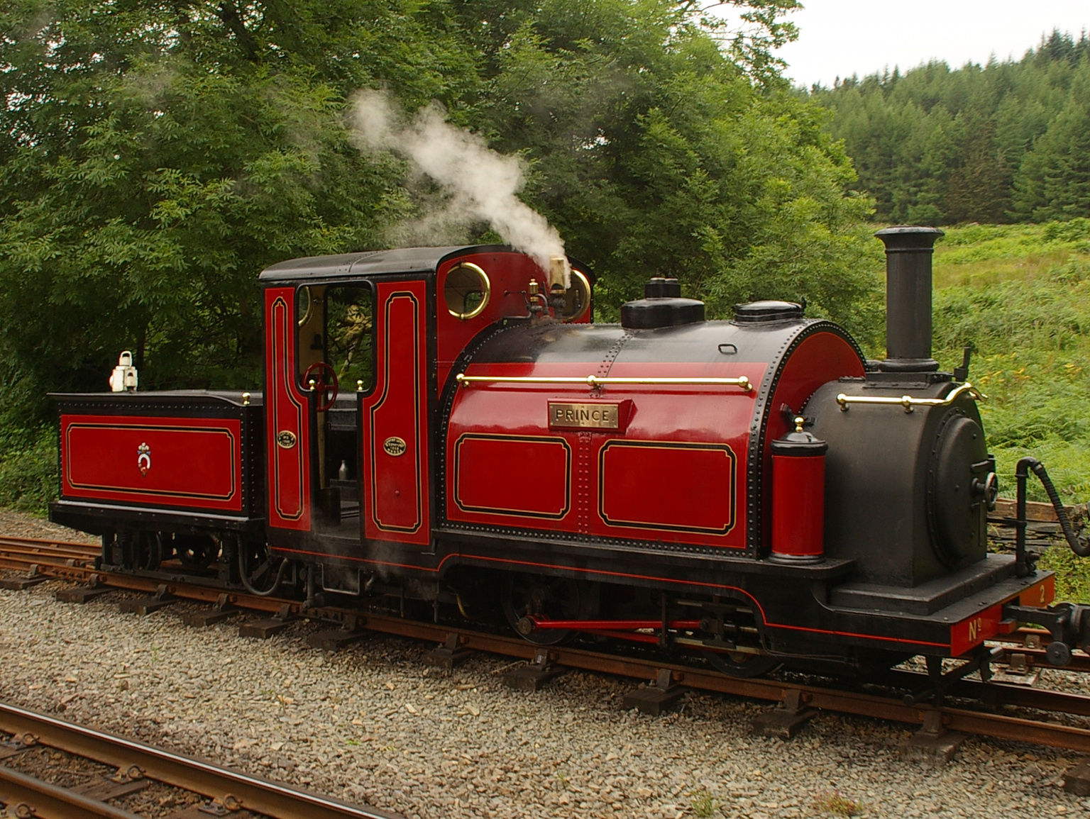 Ffestiniog Railway locomotive Prince at Tan-y-Bwlch railway station.